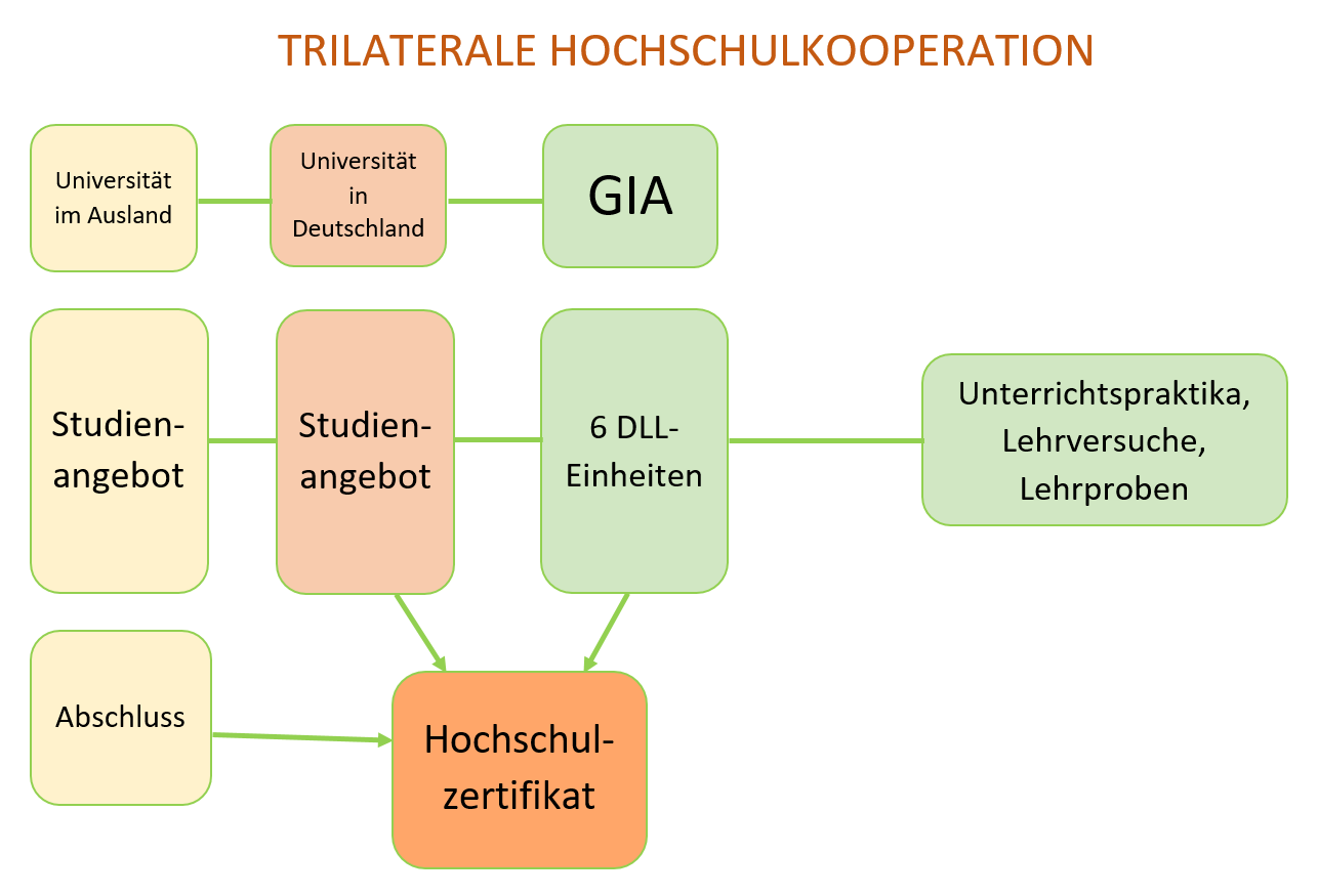 Trilaterale Hochschulkooperation